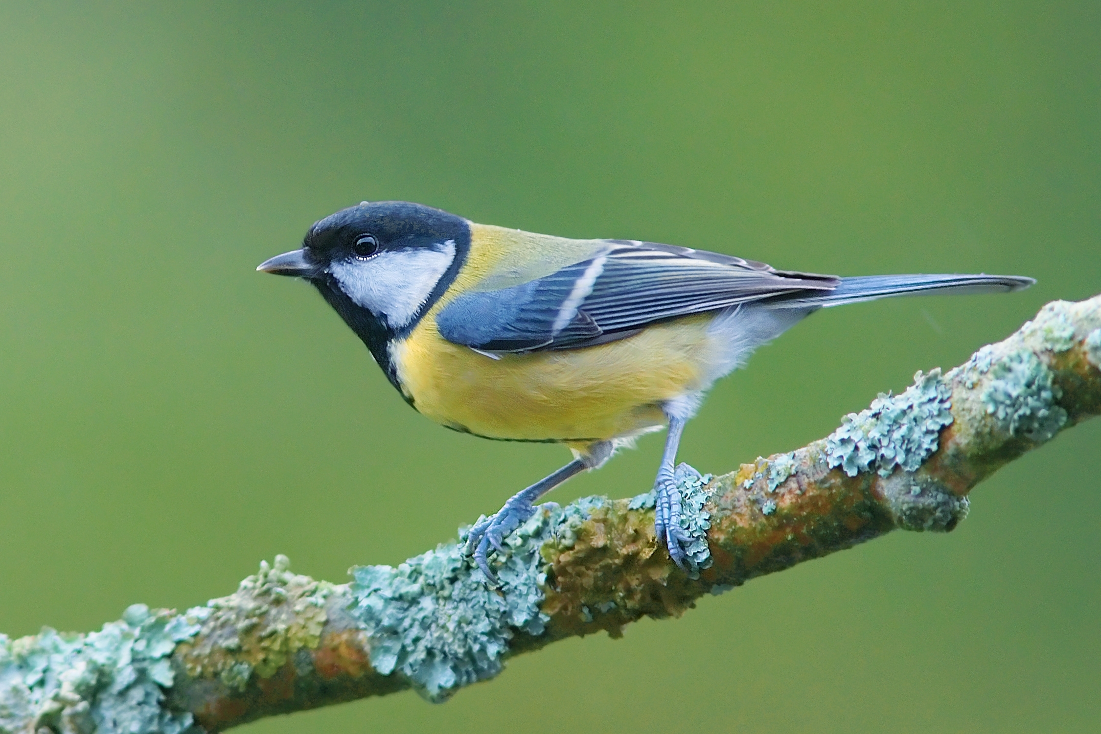 Great Tit, Parus major